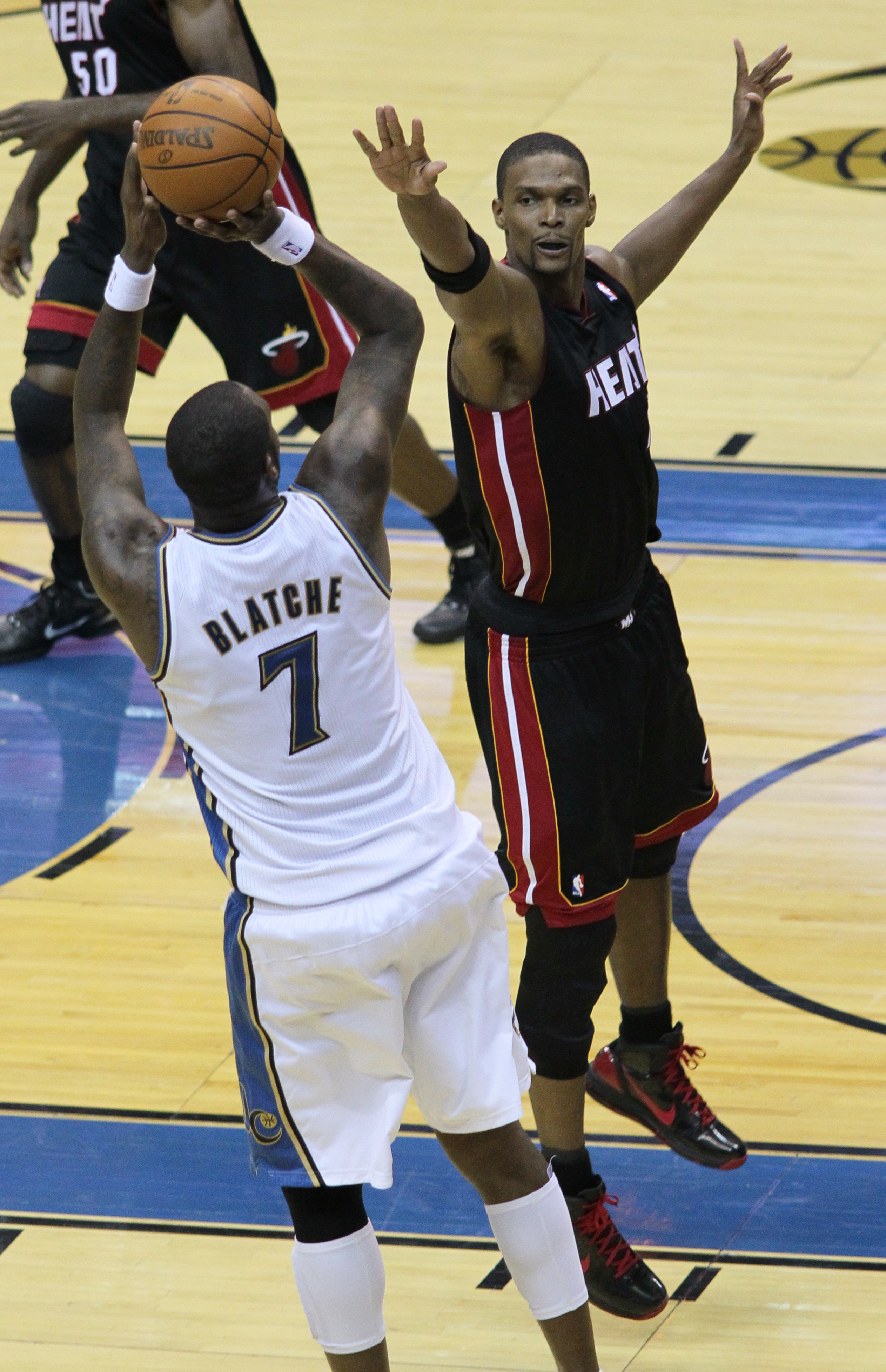 Washington Wizards v/s Miami Heat December 18, 2010